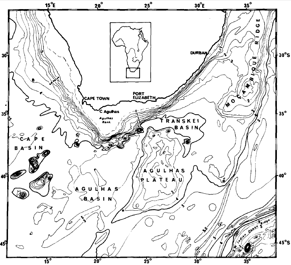 Bathymetry of the sea floor around Southern Africa. Isobaths are at 500 m intervals; the 200 m isobath is shown broken and the 4500 m one is emphasized. Inset shows the location of the area with respect to Africa.